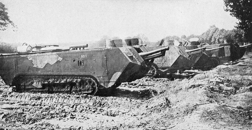 French St. Chamond tanks. The caption reads, "French tanks of the newer type."